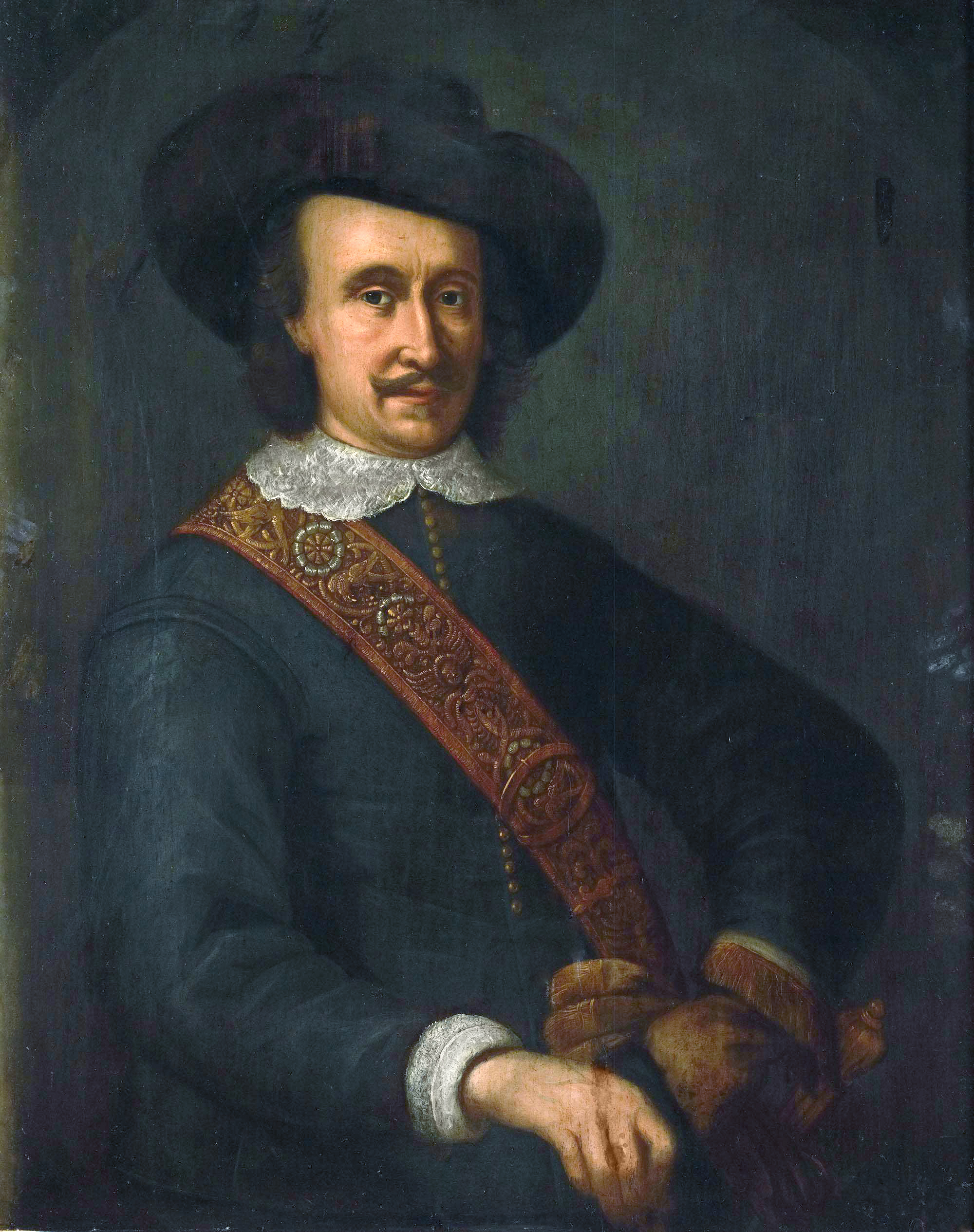 Portrait of Cornelis van der Lijn, Governor-General of the Dutch East Indies from 1645 to 1650. Part of the Governors-general series.